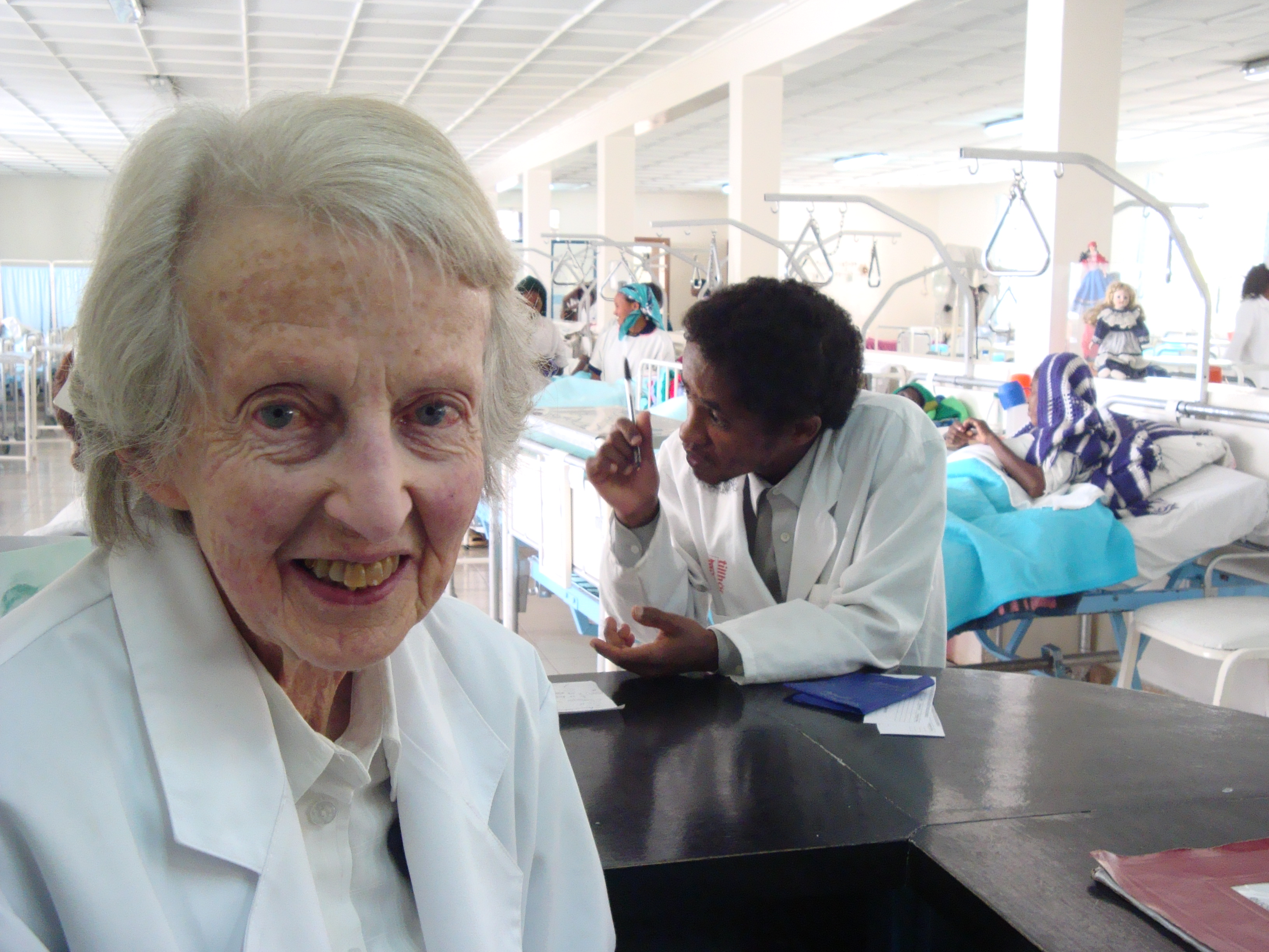 Dr Catherine Hamlin at the Hamlin Fistula Hospital, Ethiopia 2009. Photo: Lucy Horodny, AusAID